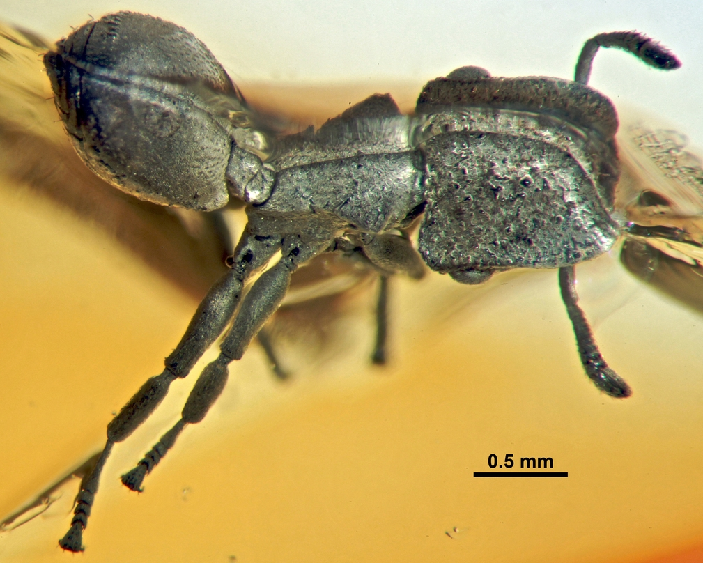 Profile view of the Cephalotes dieteri paratype worker. Dominican amber, Burdigalian; Dominican Republic, Hispaniola Staatliches Museum fur Naturkunde, specimen SMNSDO4162